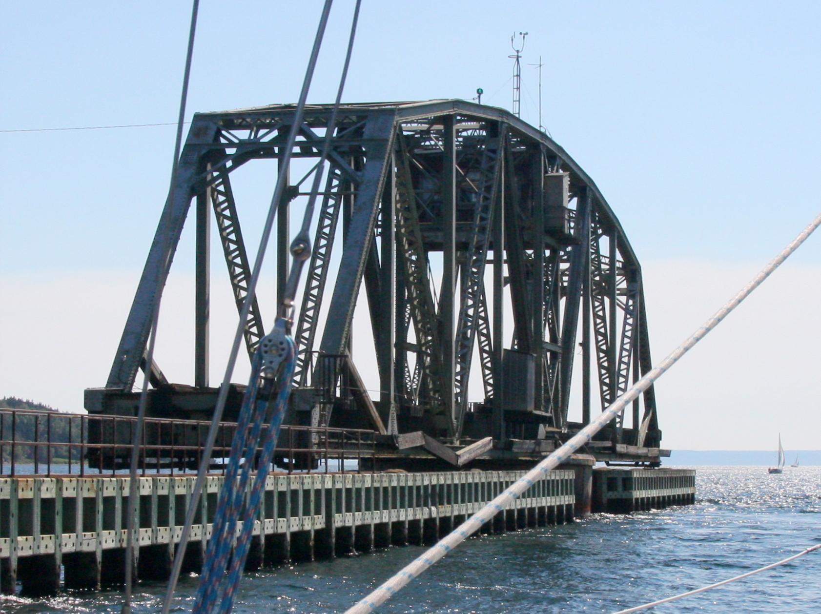 This is the Swing Span of the Grand Narrows Bridge at Iona and Grand narrows, Cape Breton Island, Nova Scotia. It is open in this photo to permit the passage of marine traffic.